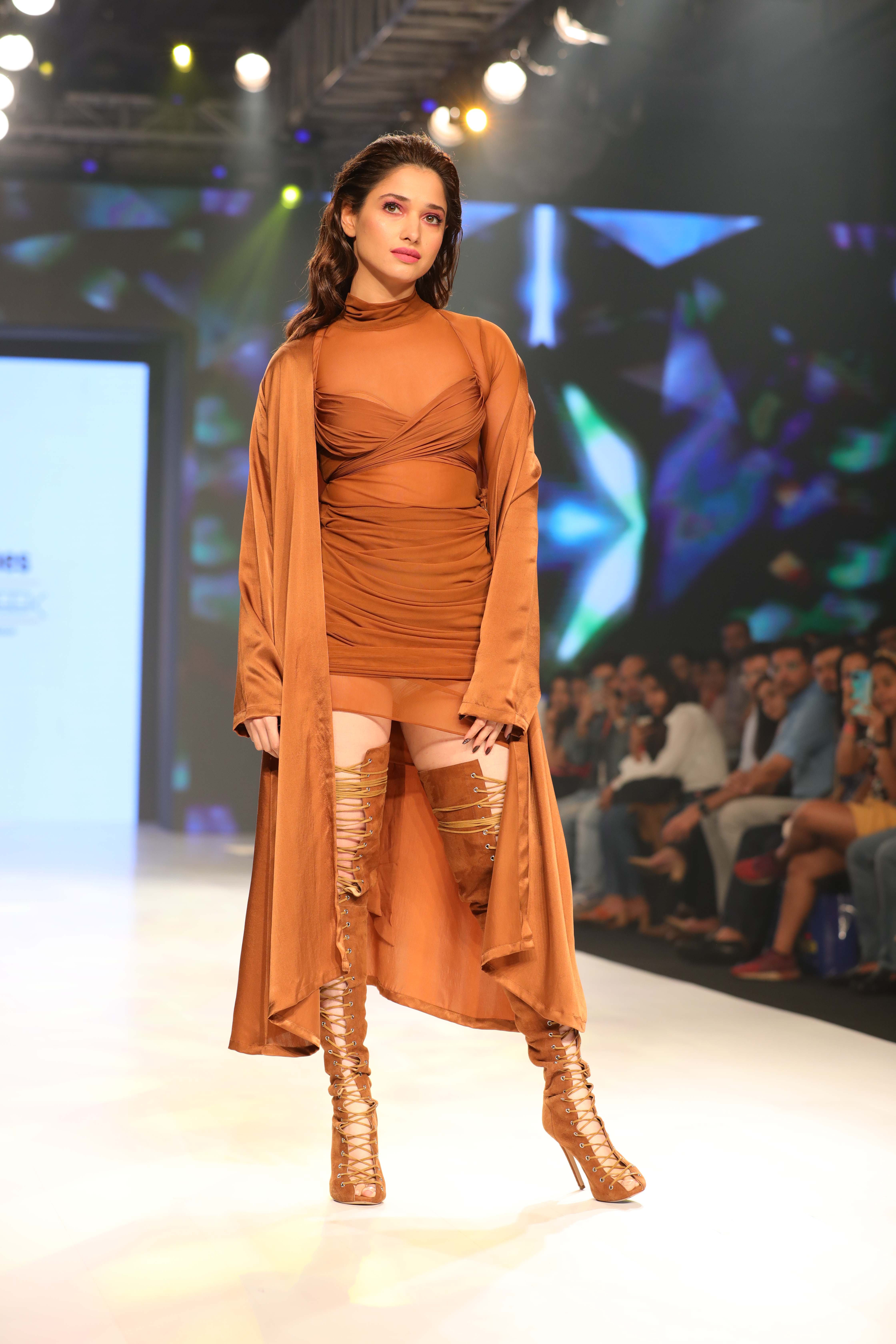 Tamannaah Bhatia at BTFW 2020